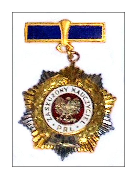 Badge of Honorary Title "Distinguished Teacher of Polish People's Republic" "For distinguished teachers and pedagogical staff, who during many years of work achieved mainstream results in the field of teaching, improve didactic and educational methods, educational-care work, polytechnic education, improving physical and health education, develop their interests and abilities of technical scientific, promote literacy, the spread of education and agriculture and dissemination of education among adults"[3]. Number honored: 4230 Date of establishment: 4 August 1956 Number of badge on the picture: 2410-86-21